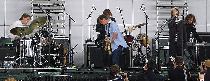 Mew performing at Virgin Festival Ontario day 2 2009